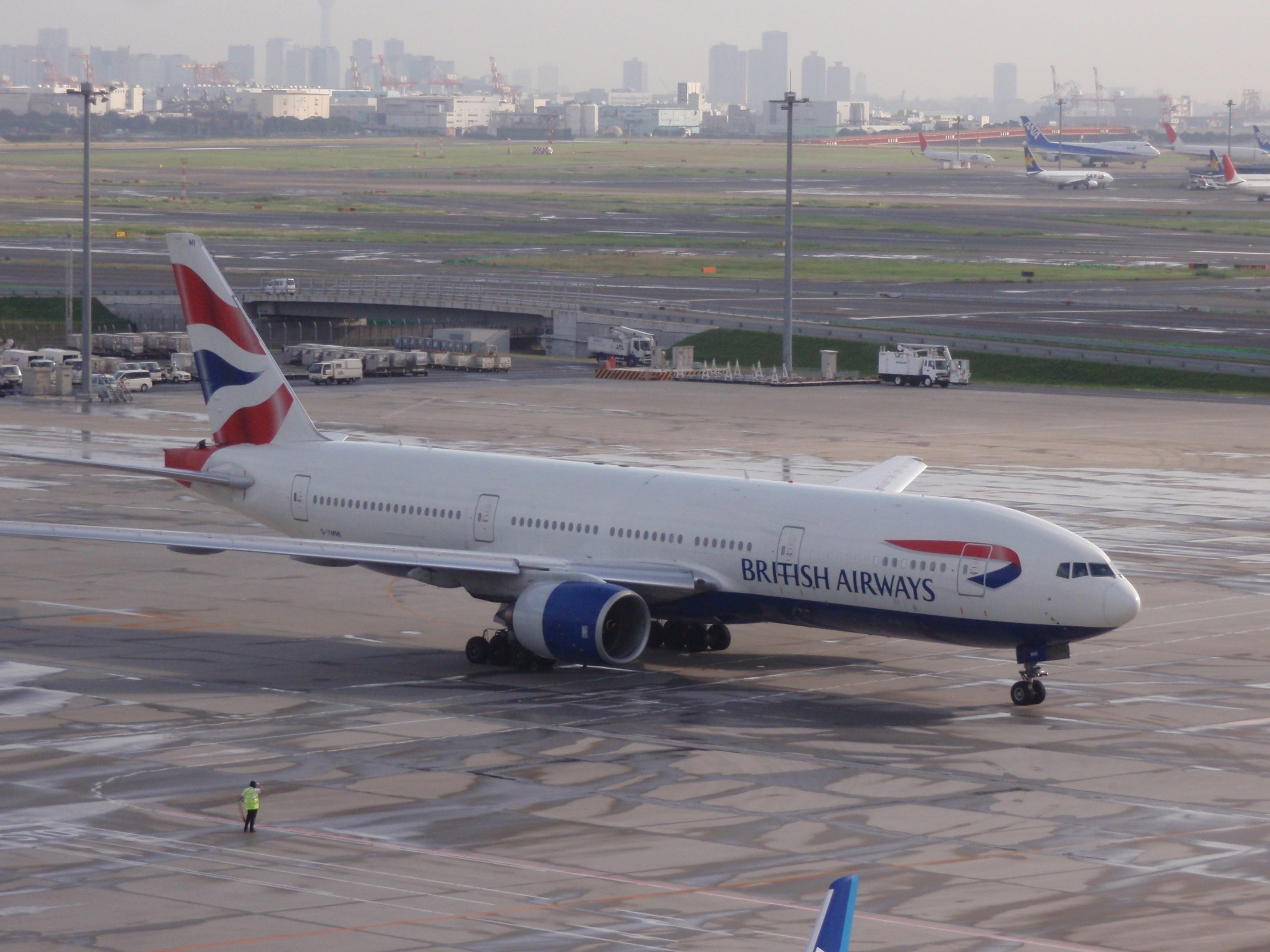 British Airways Boeing777-236ER(G-YMMI) at Tokyo Int'l Airport